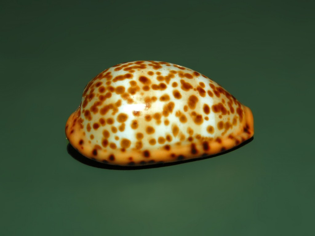 Palmadusta humphreyii - Solomon Islands